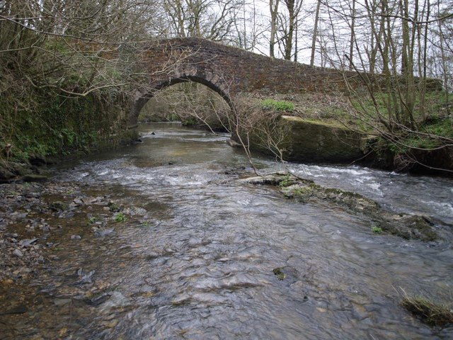 Stowford Bridge The River Thrushel heads under the bridge carrying the Two Castles Trail.